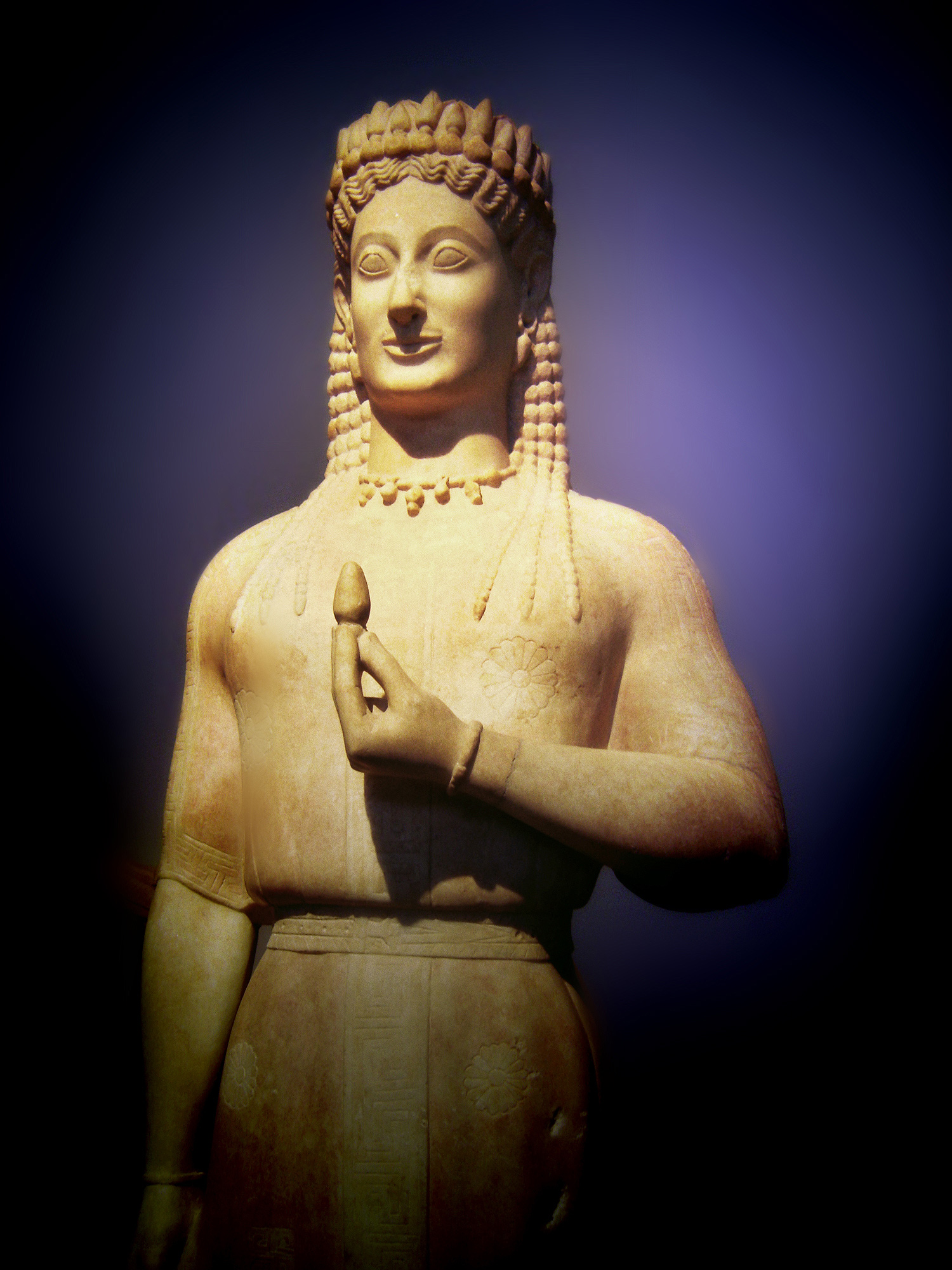 The Phrasikileia Kore, exhibited at the National Archaeological Museum of Athens.